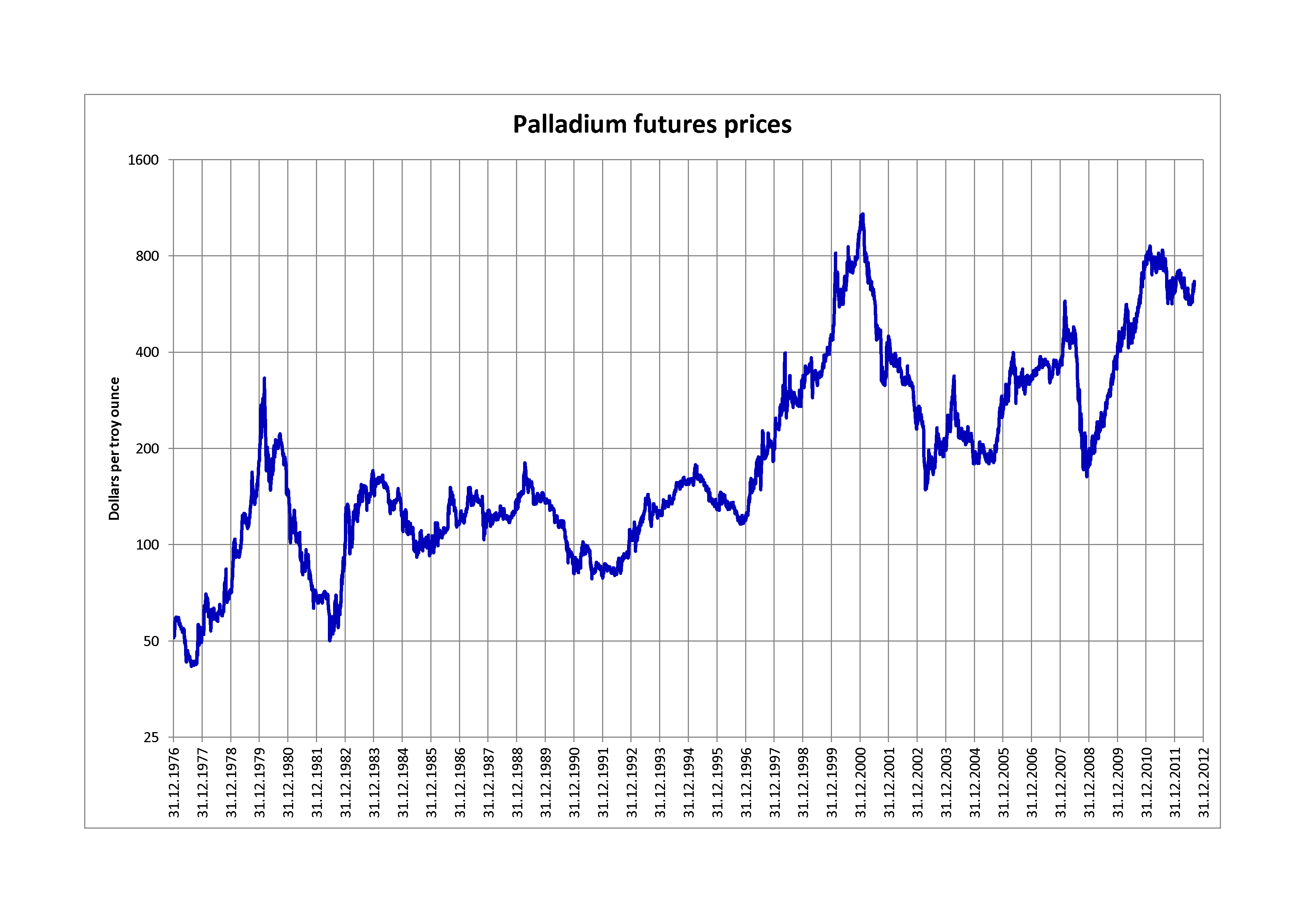 Palladium price from January 1977 to September 2012 in dollars per troy ounce (daily closings)